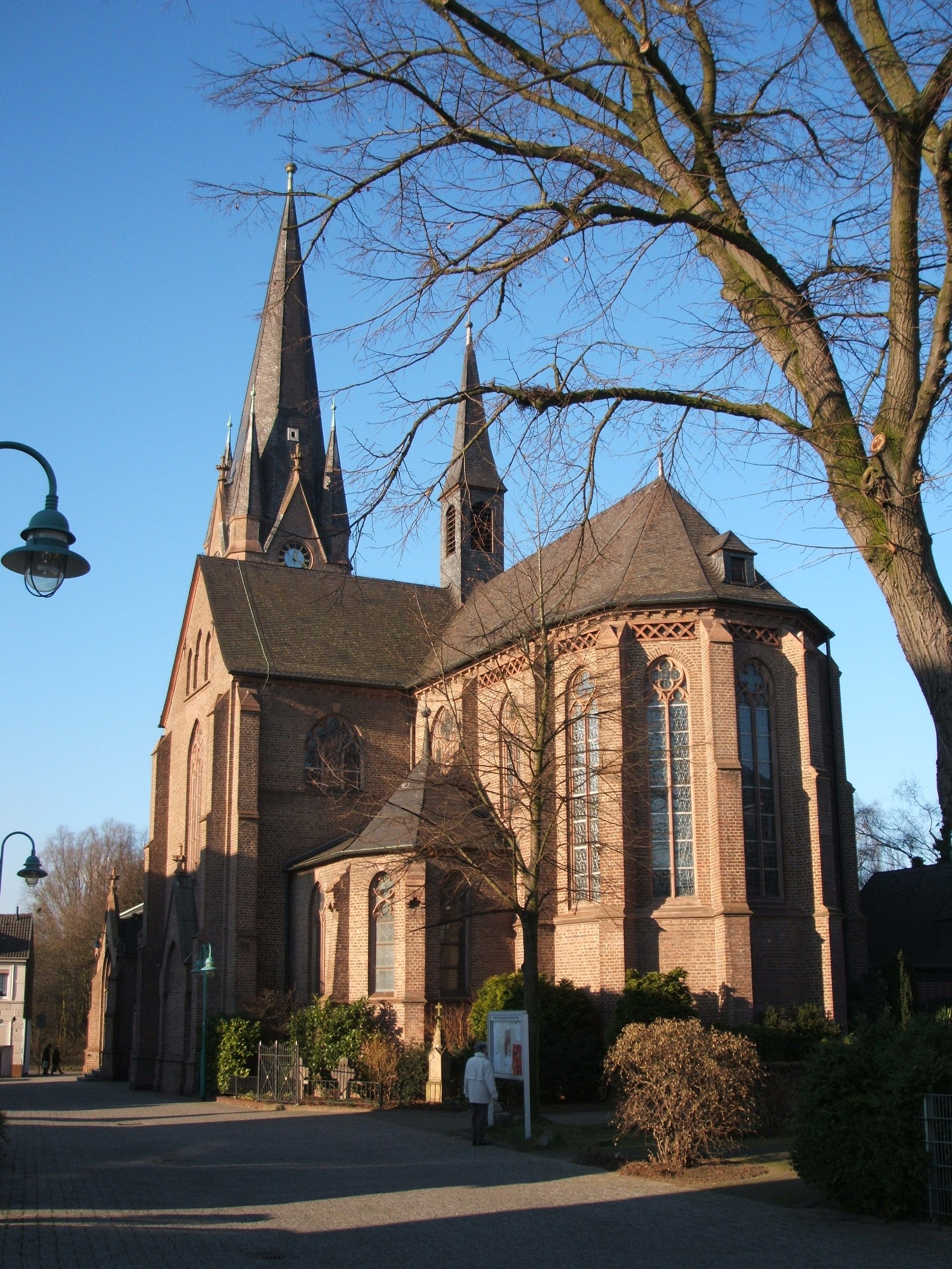 Rear view of church St. Peter and Paul in Duisburg-Huckingen (Germany)